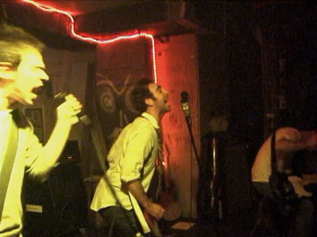 Shahin Motia, Zach Lehroff and Shah Motia of Ex Models performing live at Siberia NYC on October 18, 2002